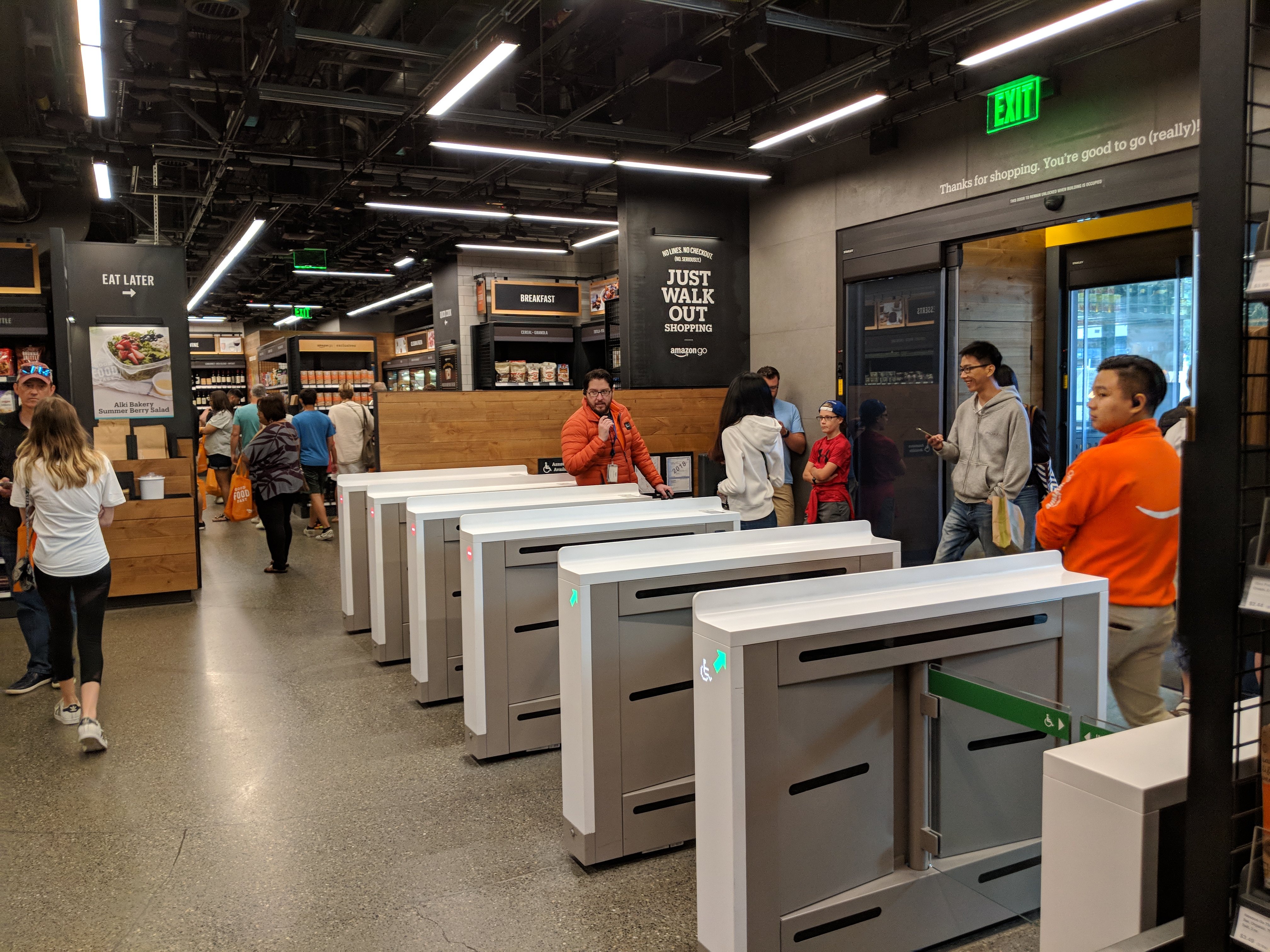 Entrance of Amazon Go grocery store in Seattle, Washington, USA. Scan the QR code on the Amazon Go mobile app when entering.